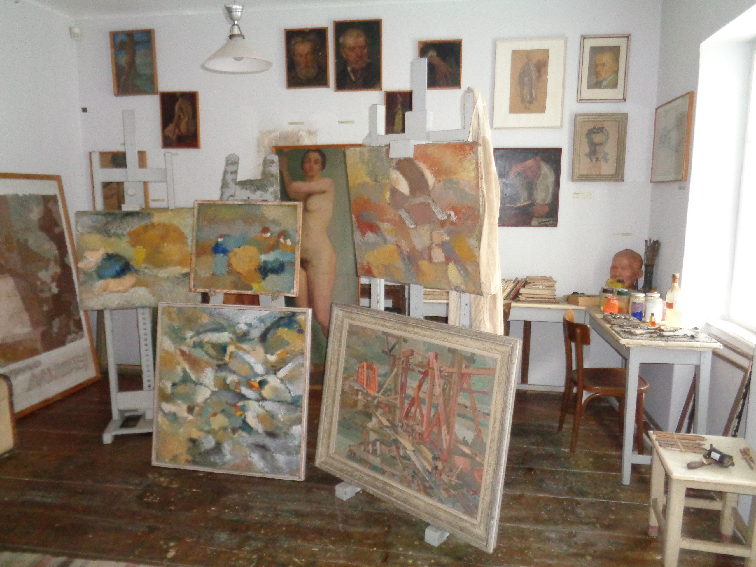 Medjimurje County Museum in Čakovec, Croatia - Memorial collection of the painter Ladislav Kralj-Međimurec - atelier